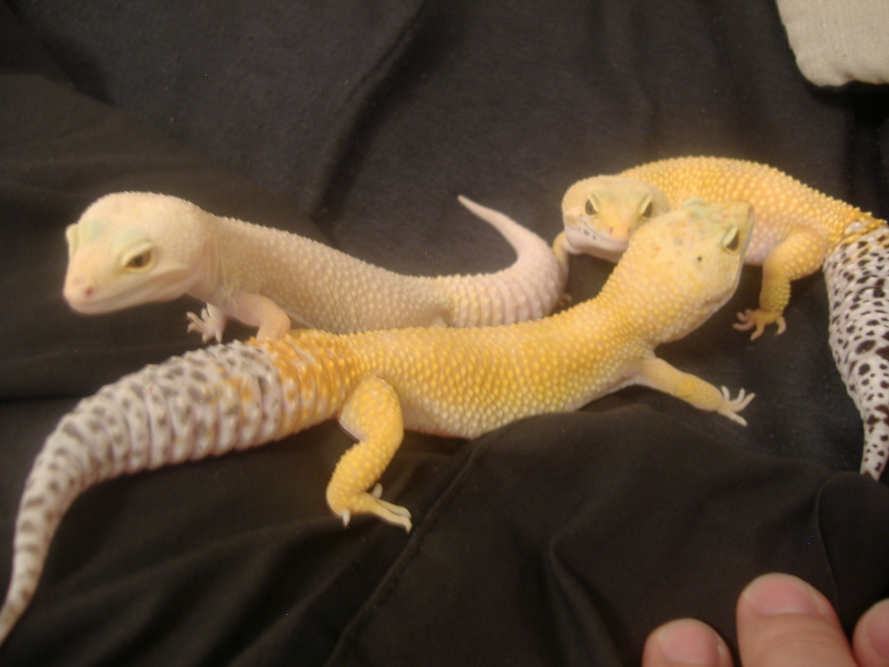 Albino and Patternless Leopard Geckos (Eublepharis macularius).